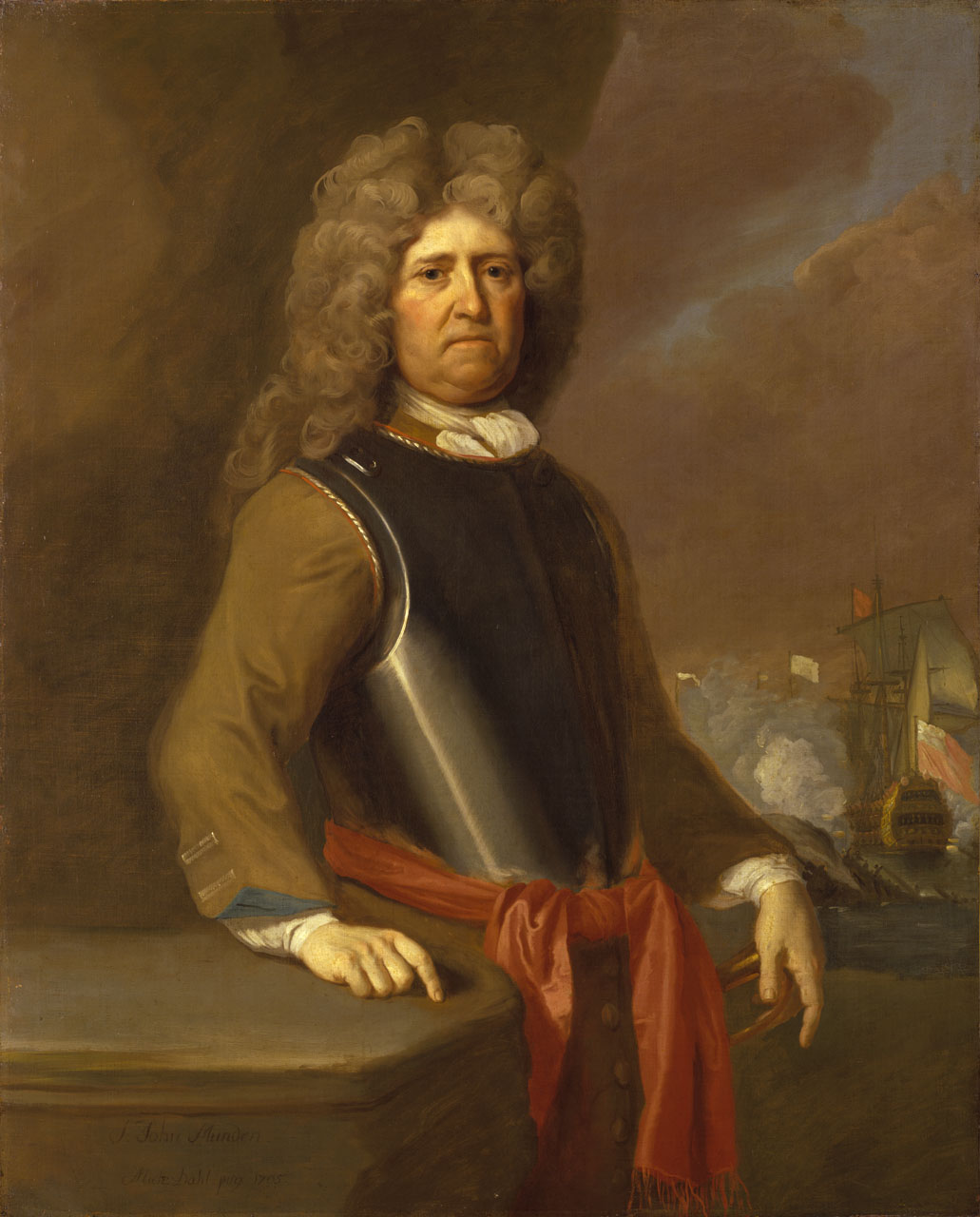 A portrait of Sir John Munden (c.1645 - 1719), painted by Michael Dahl, and in the collection of the National Maritime Museum in the UK.